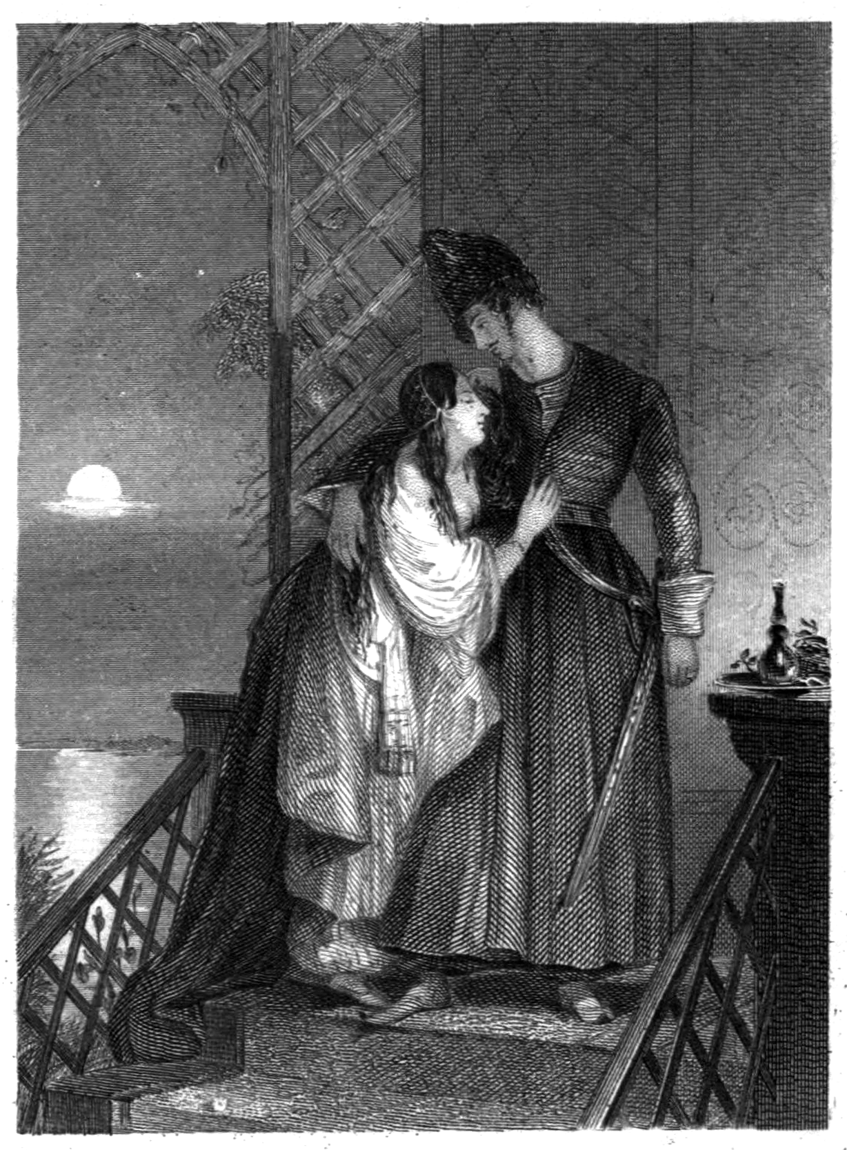 Illustration of Zuleika from Byron’s poem The Bride of Abydos.